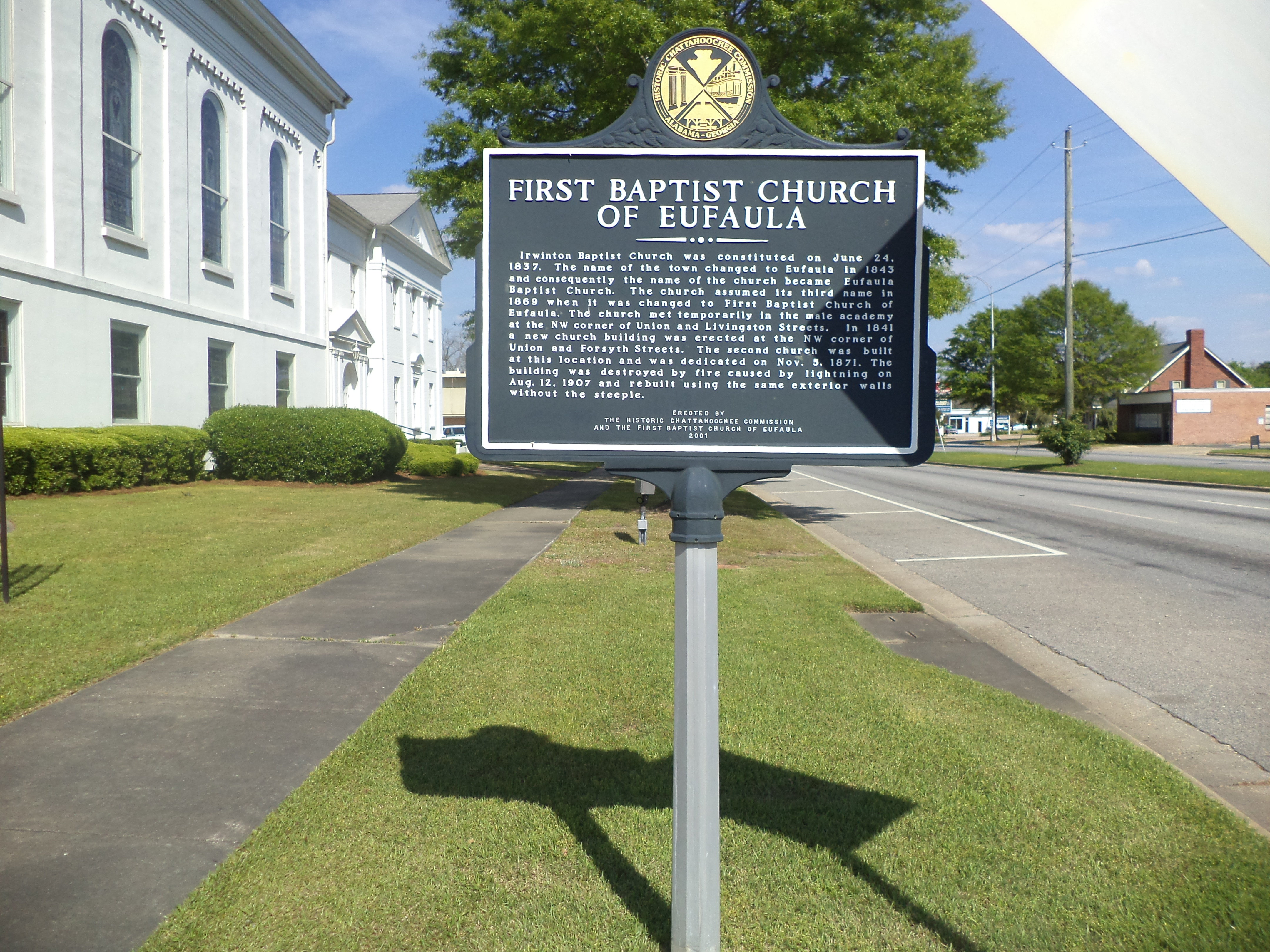 First Baptist Church of Eufaula marker, Eufaula, Barbour County, Alabama